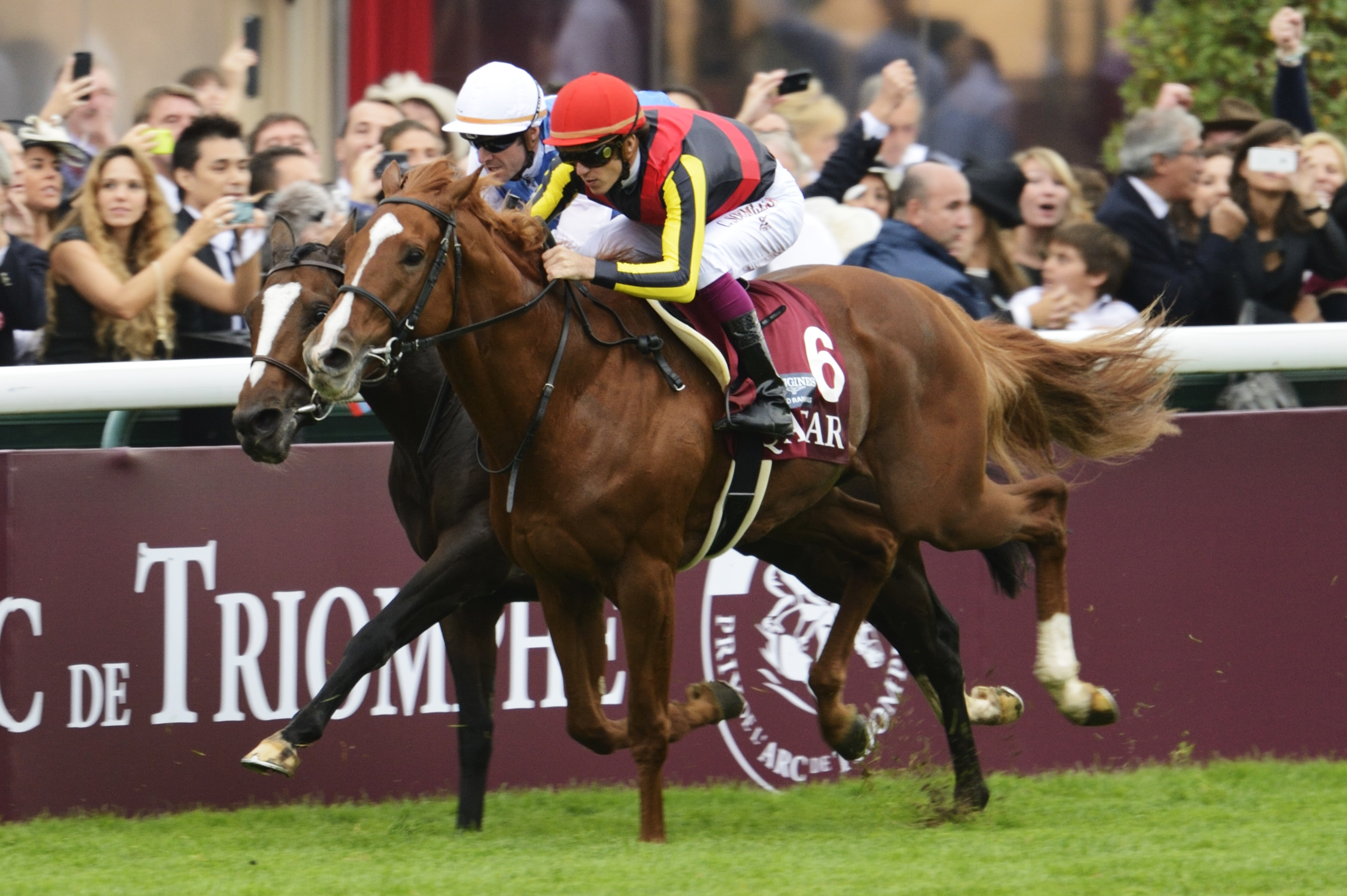 at Arc de Triumphe 2013